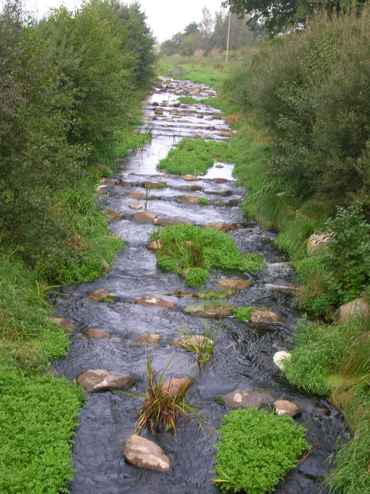 The river Temnitz near Garz (Temnitztal) in Brandenburg